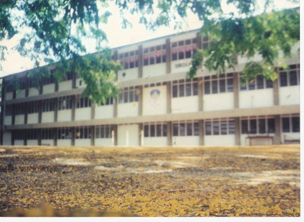 Description: SMJK Chio Min Building Source: self-made Author : Jimmy Tan